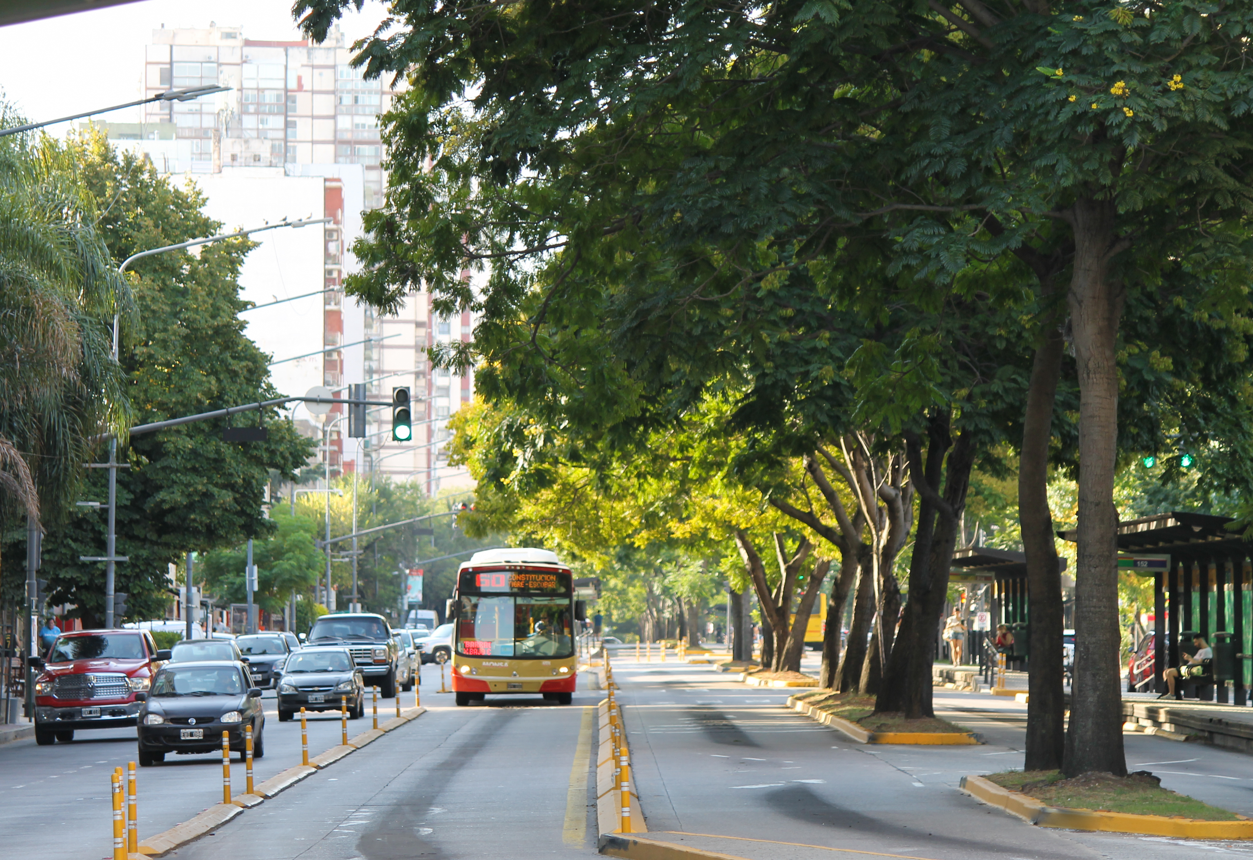 Maipu Avenue in Florida, Buenos Aires Province